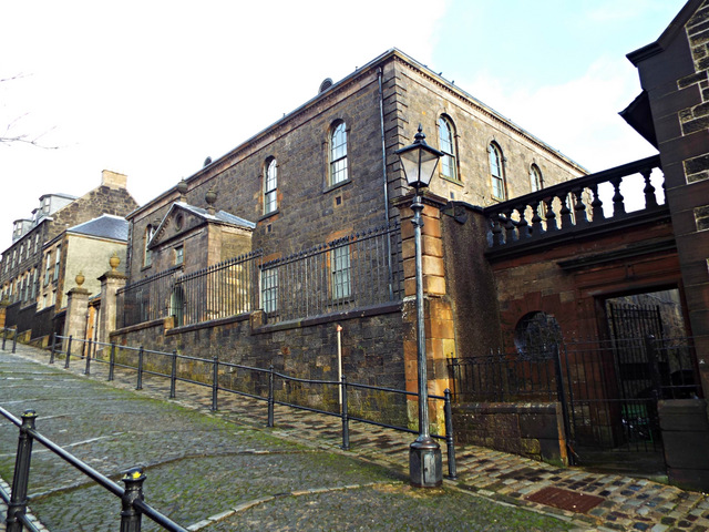 Former Middle Church